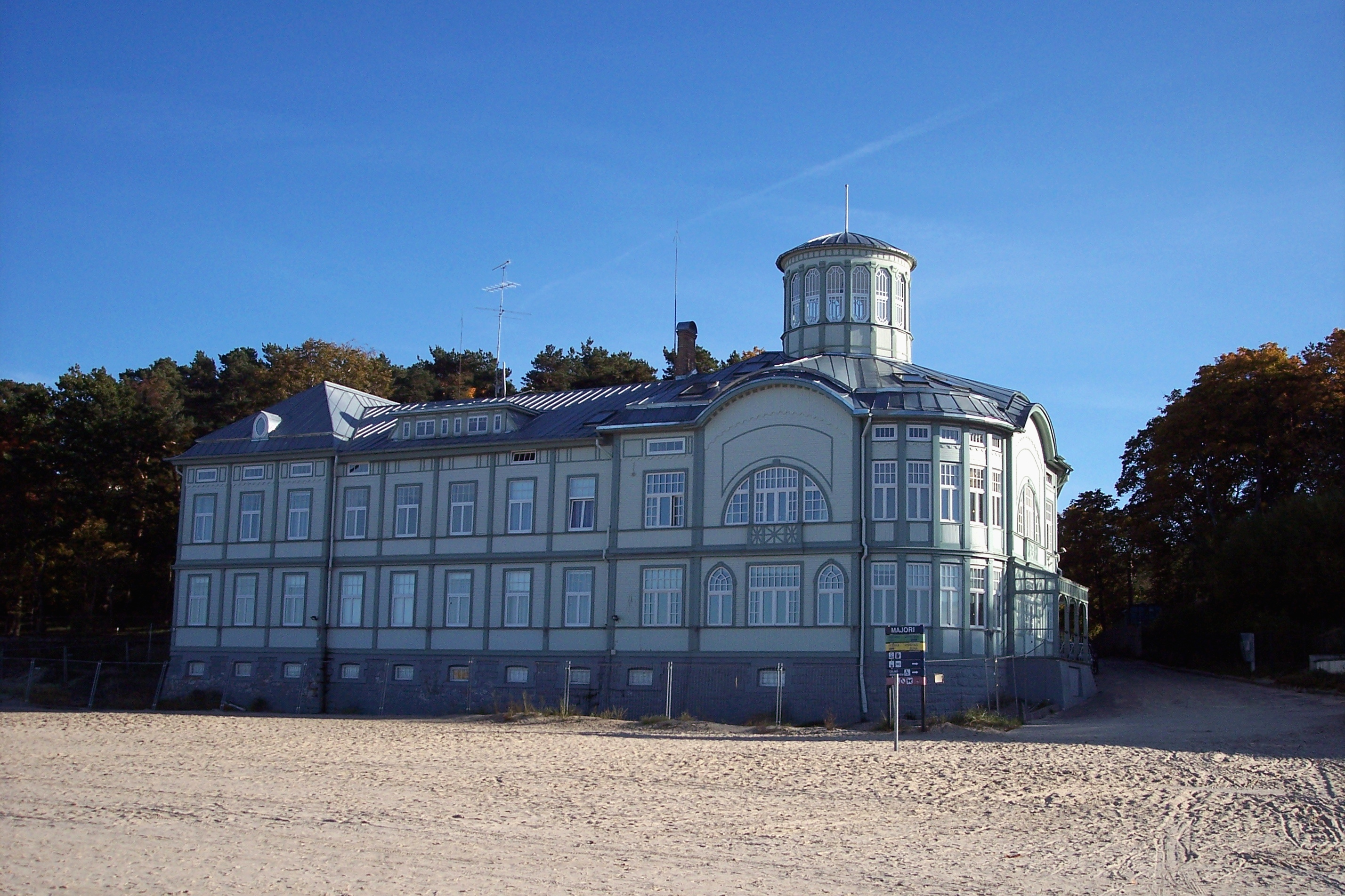 Wooden structure on the beach in Majori, Jūrmala, Latvia.